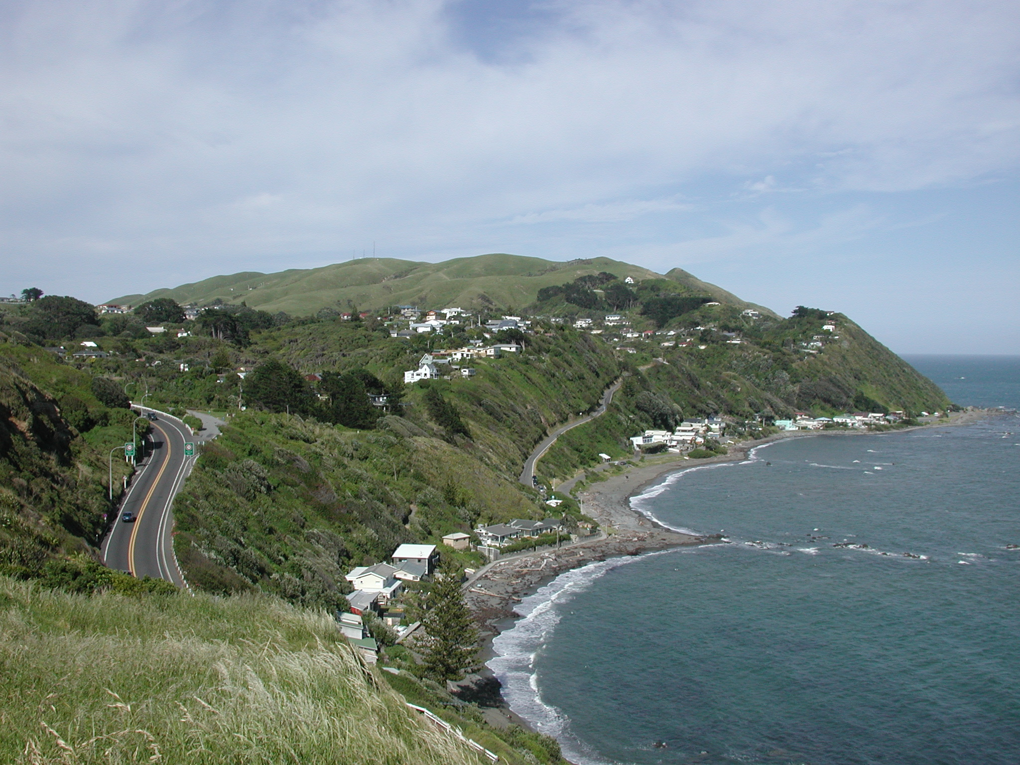 Looking south over Pukerua Bay in spring 2006 from near the train tracks of the main trunk line on the northern end of Pukerua Bay. State Highway 1 is on the left, with Brandon Beach in the foreground and the main Pukerua beach further back in front of the road coming down the hill face (connecting Pukerua Bay Beach road and Ocean Parade). The majority of Pukerua Bay's residential area is located behind and to the left of the houses on the hill in the middle of the picture.